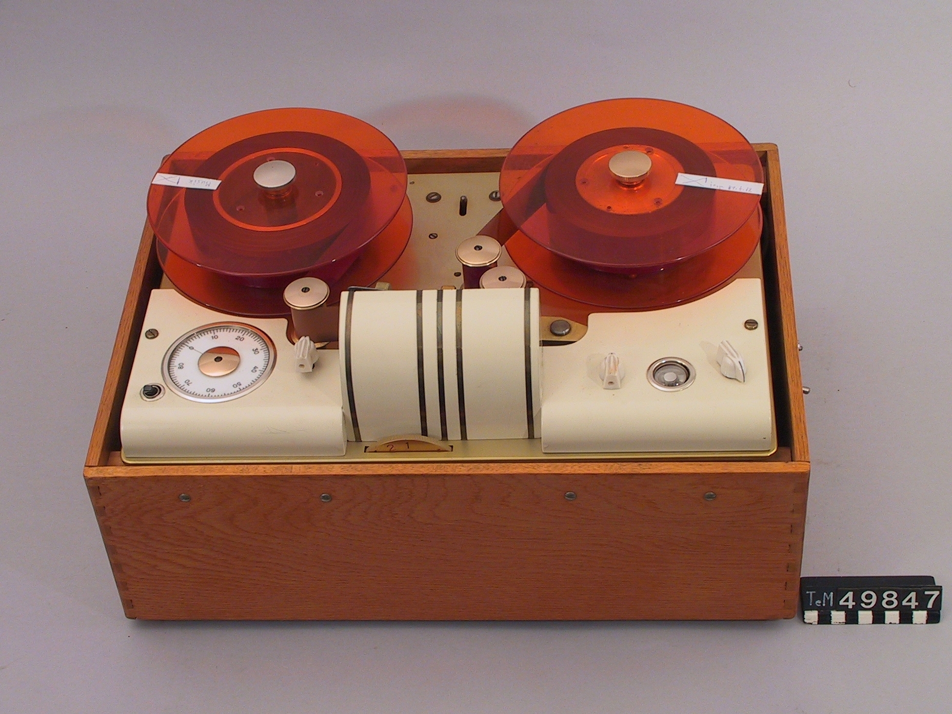 Tolnai LP20 Tape Recorder. Long Playing tape recorder with 20 tracks, constructed by the Hungarian-Swedish Diploma Engineer Gábor Kornél Tolnai (1902-1982), Stockholm, in the 1950s. Since 1986 the tape recorder is in "Tekniska museet" in Stockholm.